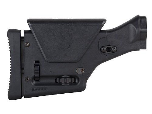 Picture of the stock on my 100 BA rifle.